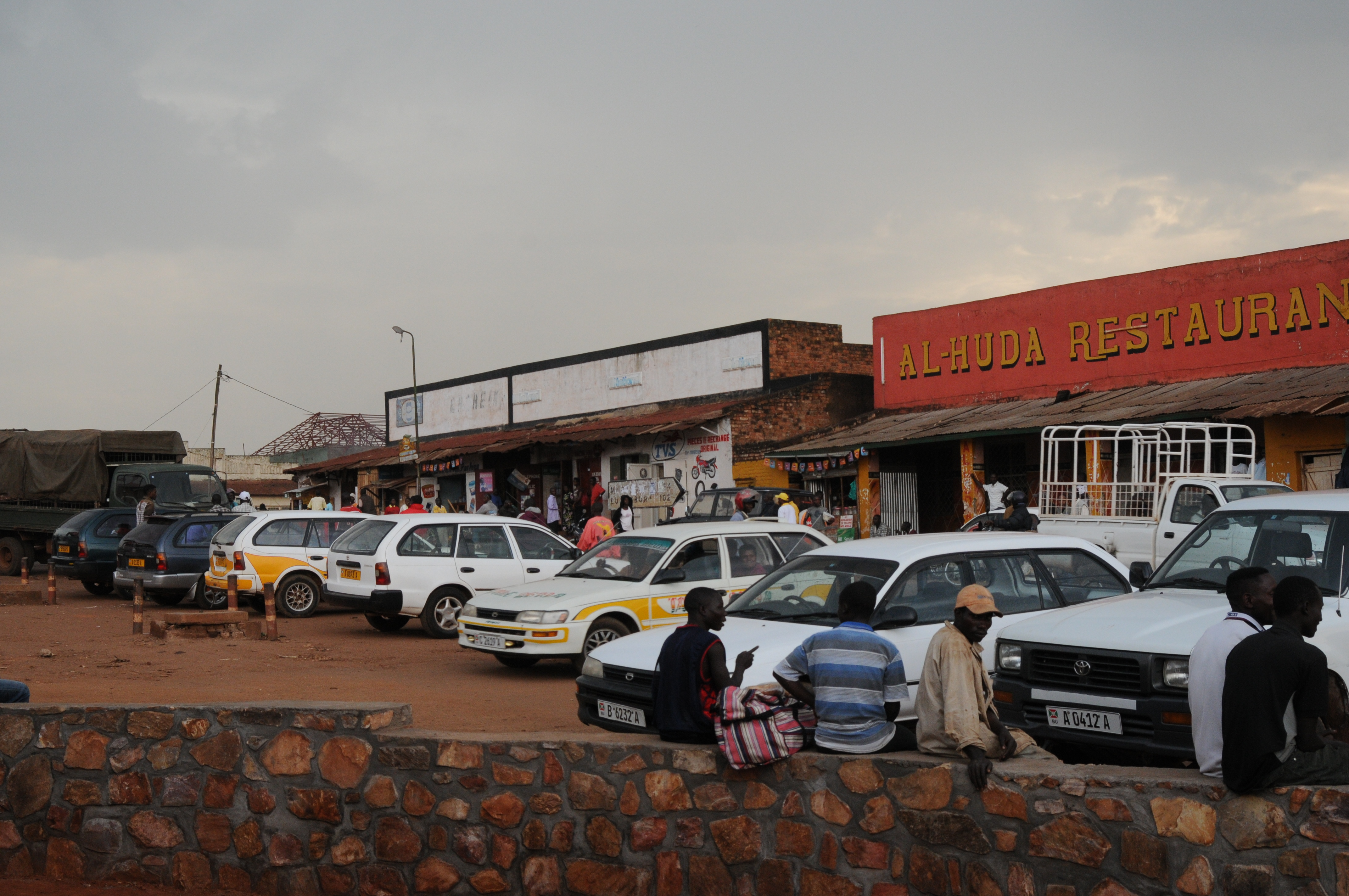 Burundi - Sanitation in Gitega / Assainissement à Gitega 2012